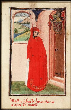 Statuts, Ordonnances et Armorial de l'Ordre de la Toison d'Or (Statutes, Ordonnances and armorial of the Order of the Golden Fleece) Place of origin, date: Southern Netherlands; 1473. Added sections: Southern Netherlands; 1478 or shortly after and 1491 or shortly after Material: Vellum, ff. 86, 249x187 (167x106) mm, 23 lines, littera cursiva (lettre bourguignonne). French. Binding: 18th-century brown leather Decoration: 1 full-page miniature (170x115 mm) with border decoration; 92 miniatures (185/155x120/100 mm); 1 historiated initial (80x90 mm) with border decoration; decorated initials with border decoration (ff., Added section: miniatures ; 4 drawings for miniatures (not finished) Provenance: Presented in 1473 by Gilles Gobet, King of Arms of the Order of the Golden Fleece, to Charles the Bold, Duke of Burgundy and the other Knights during the Chapter of the Order held at Valenciennes; Treasure of the Golden Fleece, Brussls; taken away by the Treasurer C.-F. Humyn (d. 1735) or his daughter C.Ch. de Corte; by legacy to her daughter M.-L. de Corte, wife of Ph.-E. de Poederlé; purchased in 1781 at the Poederlé sale by G.-J- Gérard of Brussels; acquired in 1832 as part of the Gérard collection (no. A 27)